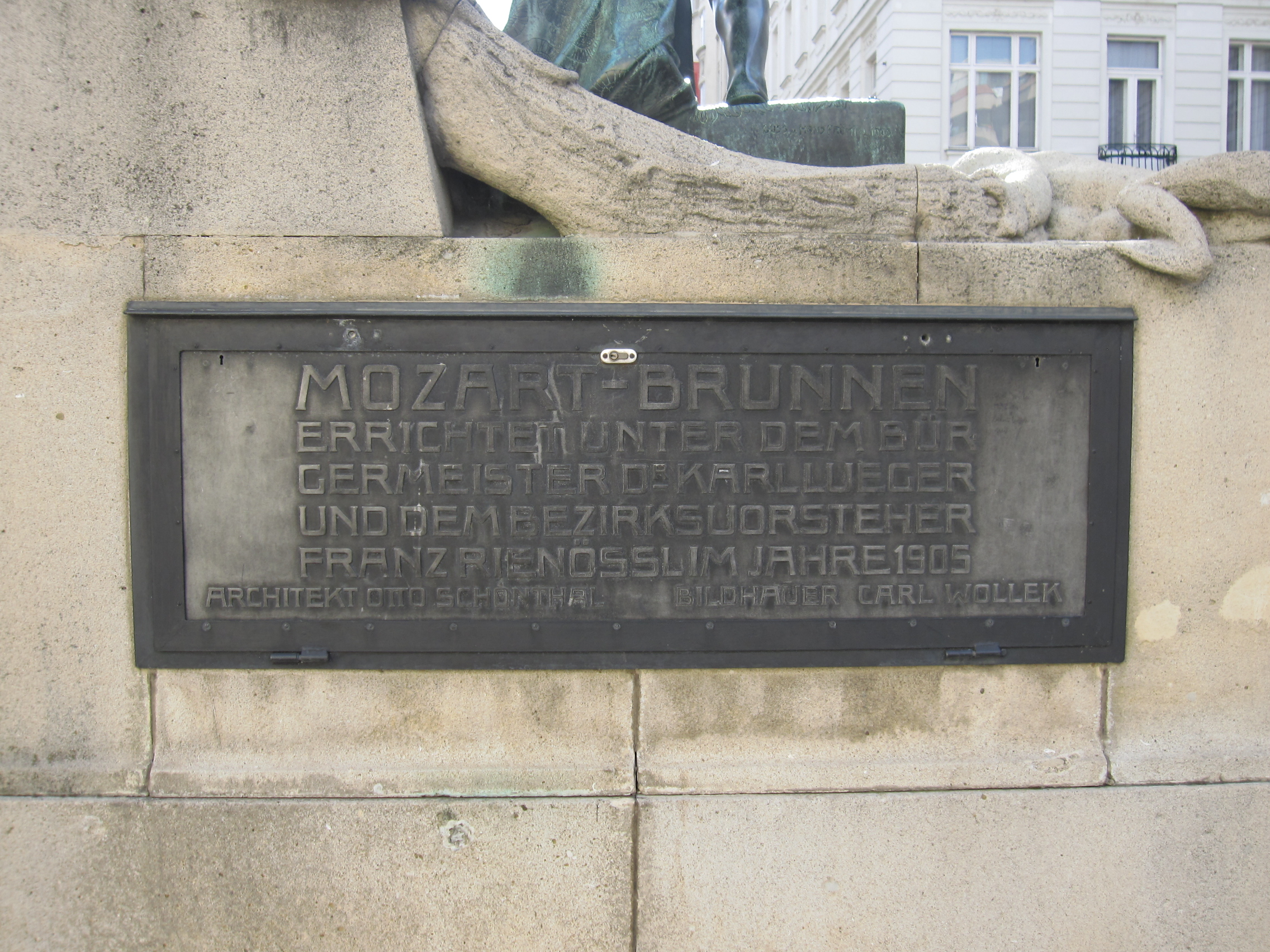 Mozart-Brunnen in Vienna